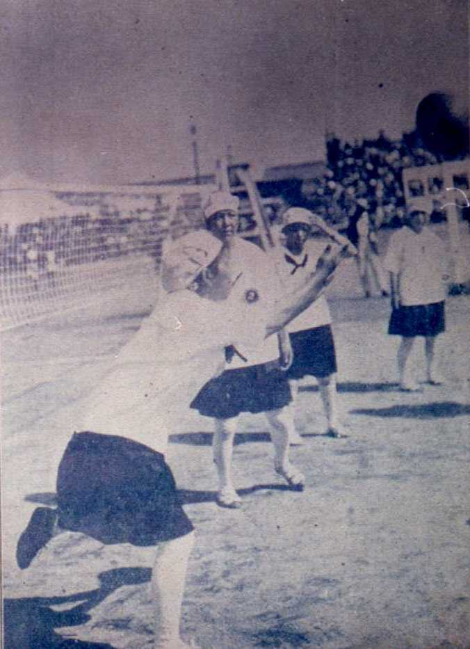 Volleyball players at the 6th Far Eastern Championship Games, Osaka, 1923 (from The Ladies' Journal) (cropped version).